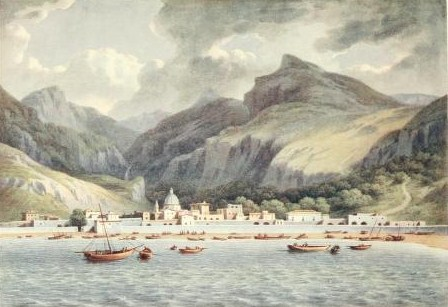 Citario on the Bay of Salerno